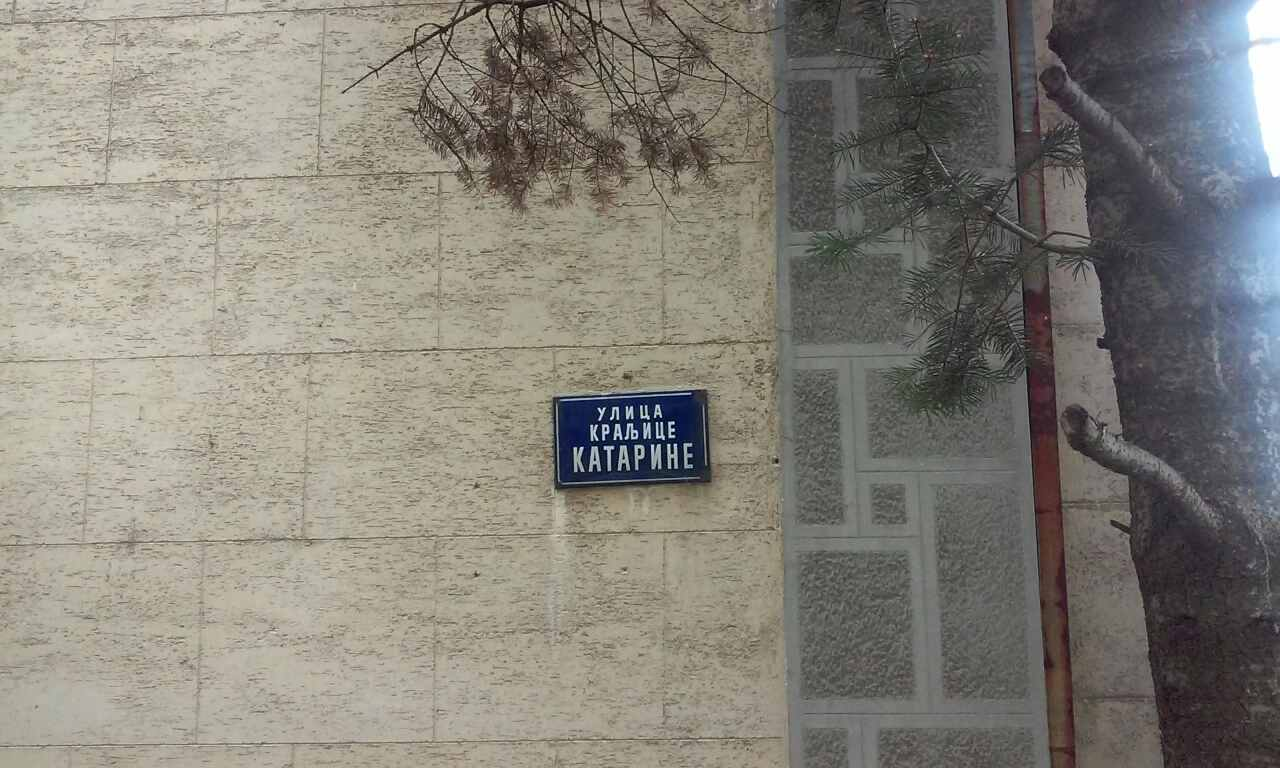 Street name sign in Kraljice Katarine street in Belgrade, Serbia.